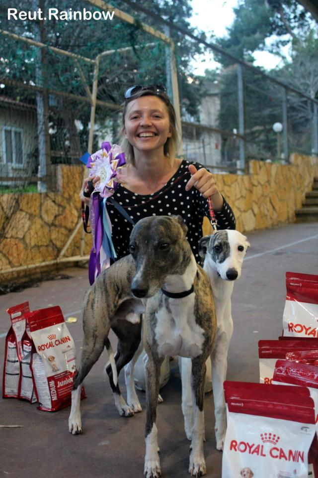 זוכים ומתרחבים